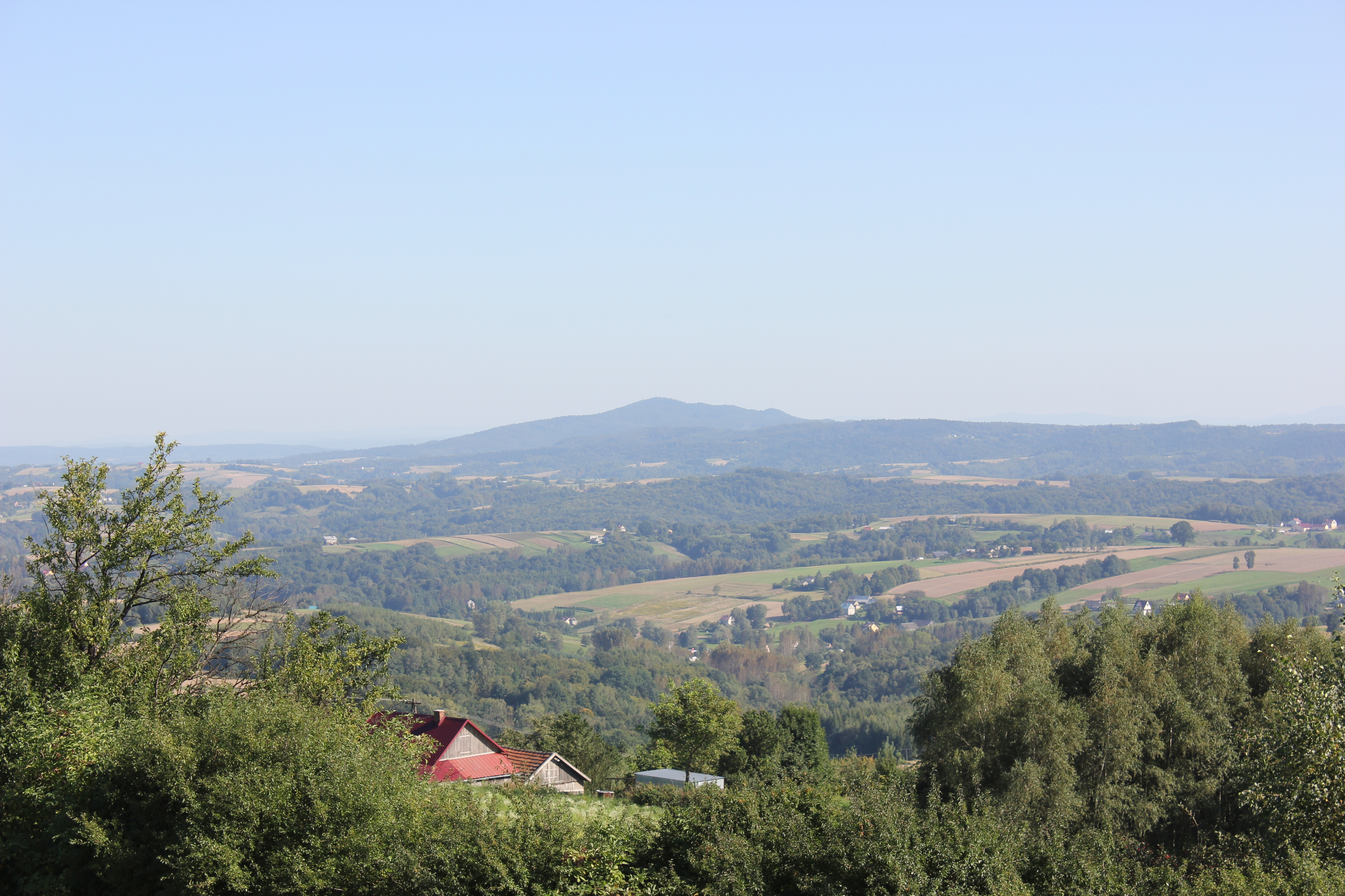 Wola Lubecka - view of the Liwocz from Kokocz mountain